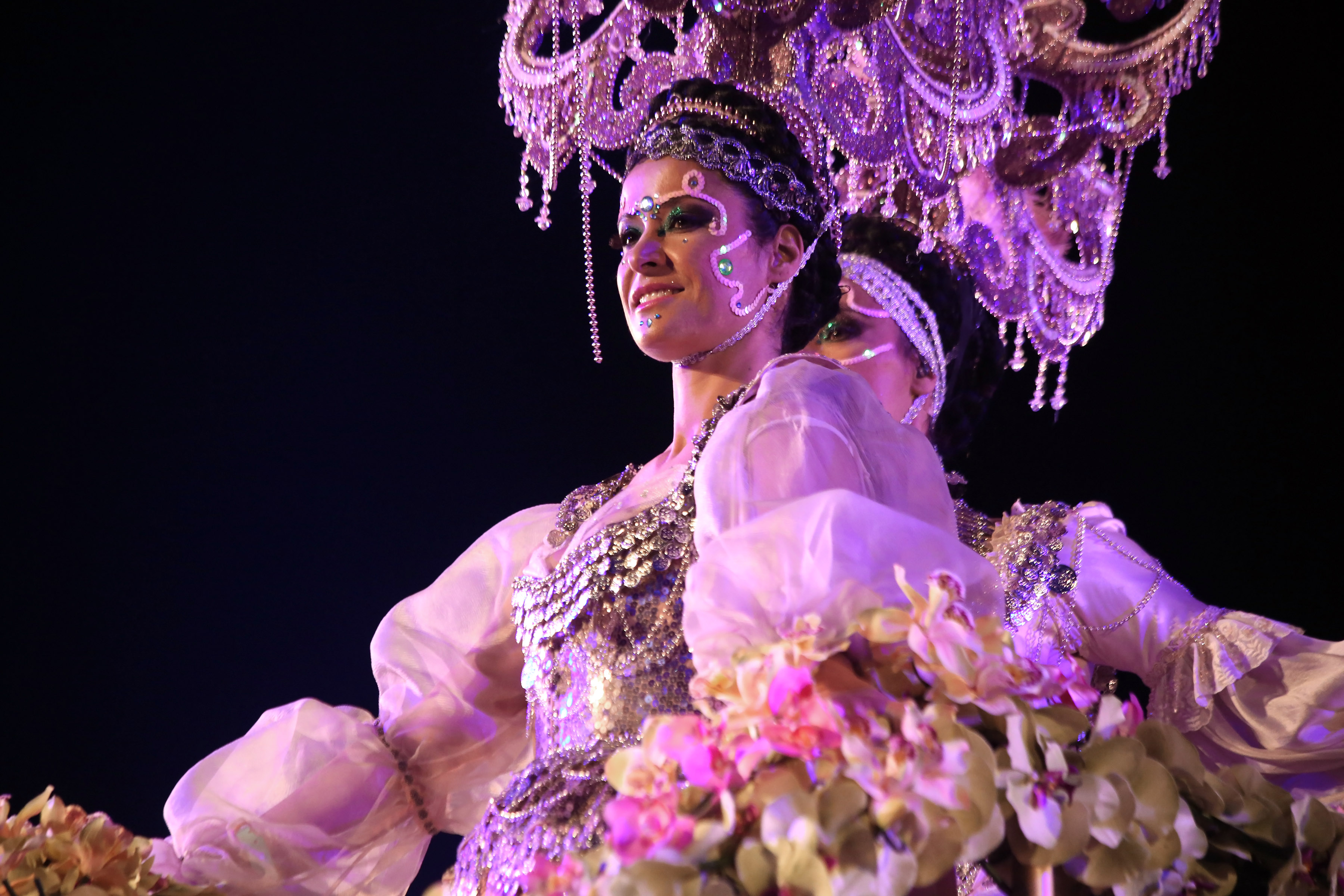 The "Opera Twins" Sidem and Didem Balık, opening show of Life Ball 2013 at the city hall of Vienna, Vienna, Austria.